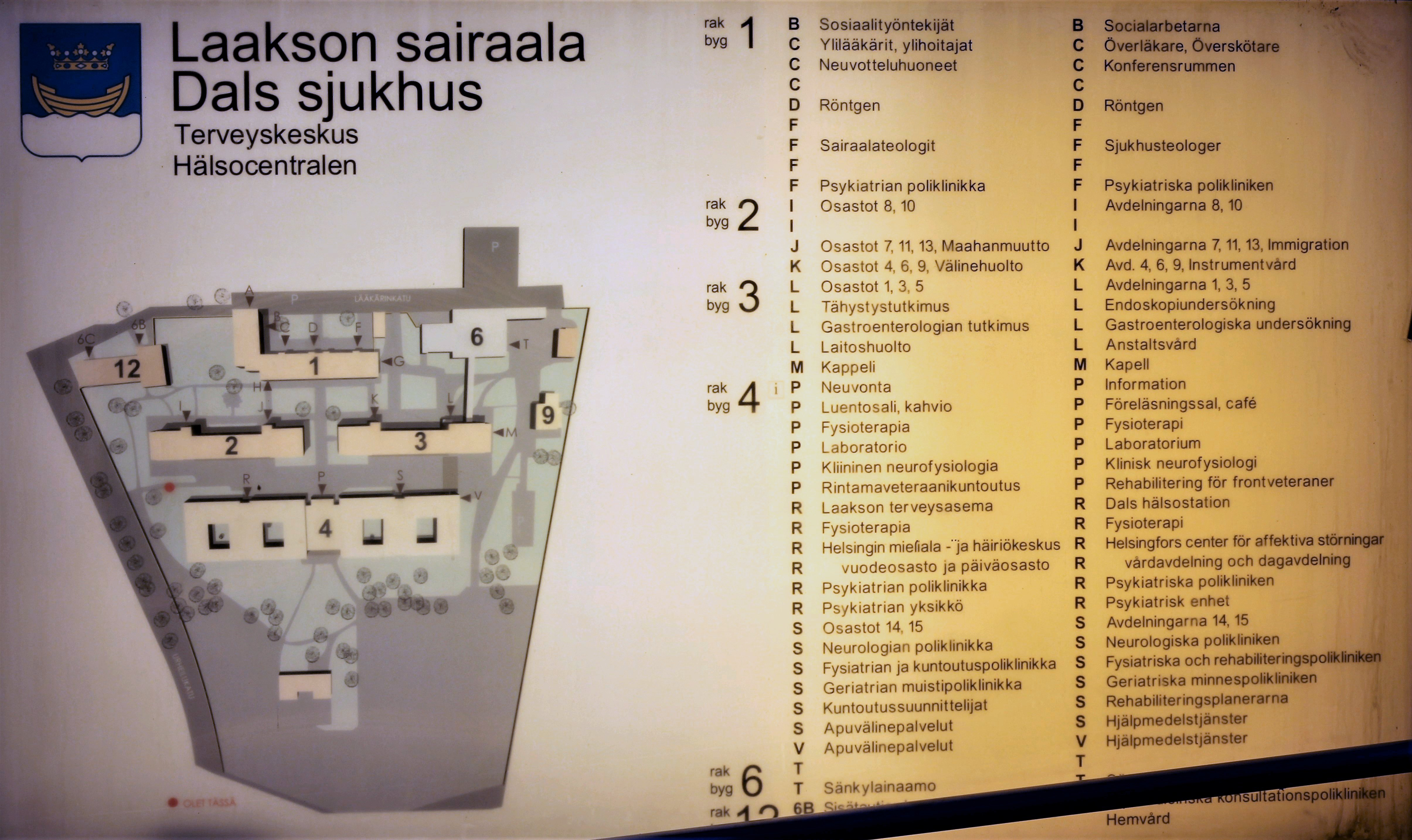 Map guide of Laakso Hospital area, located in Laakso, Helsinki. Address: Lääkärinkatu 8, 00250 Helsinki, Finland.